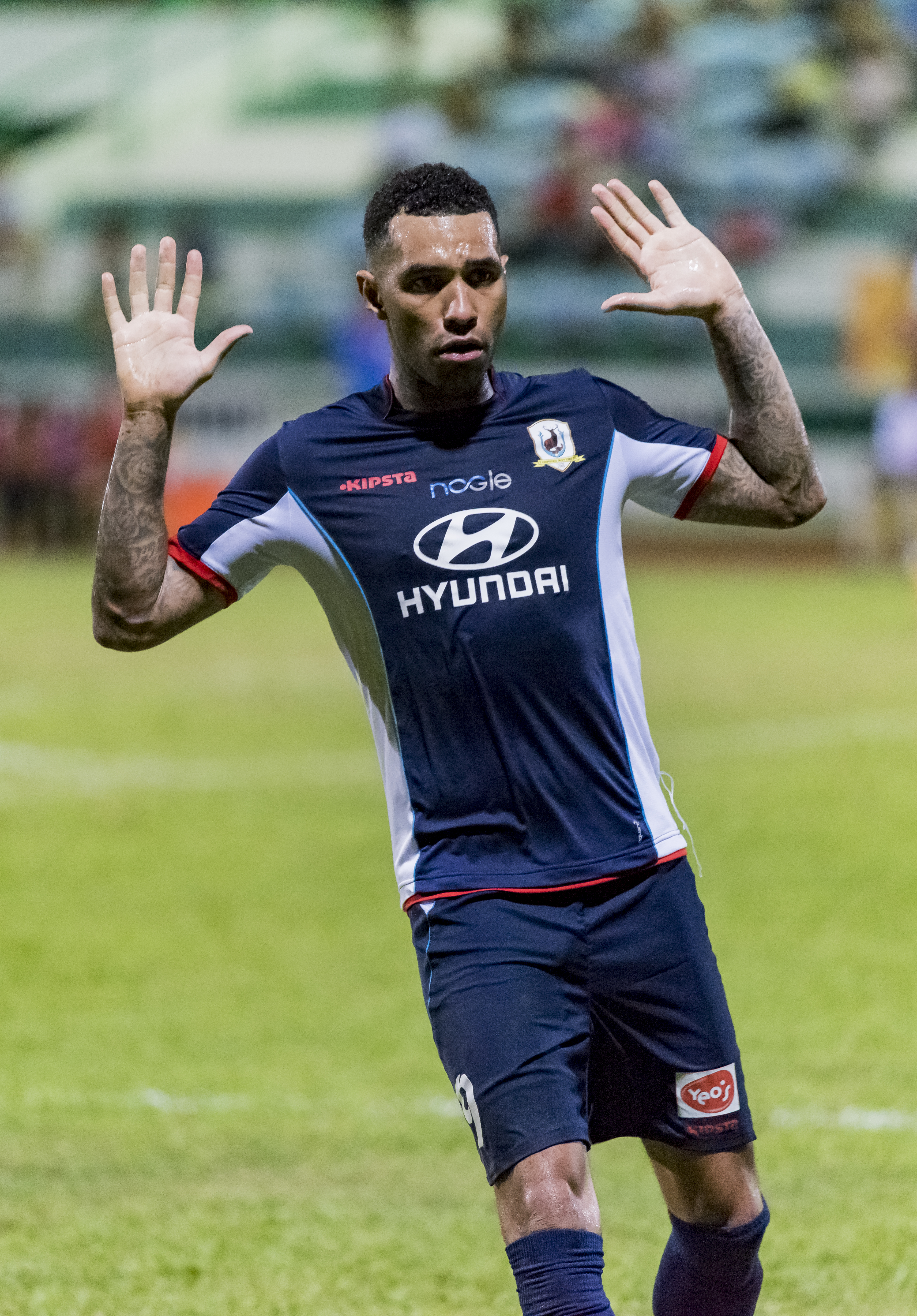 jermaine pennant playing for tampines rovers against geylang in s-league match 2016